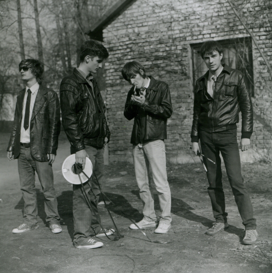 Photosession for The Fantastiques band